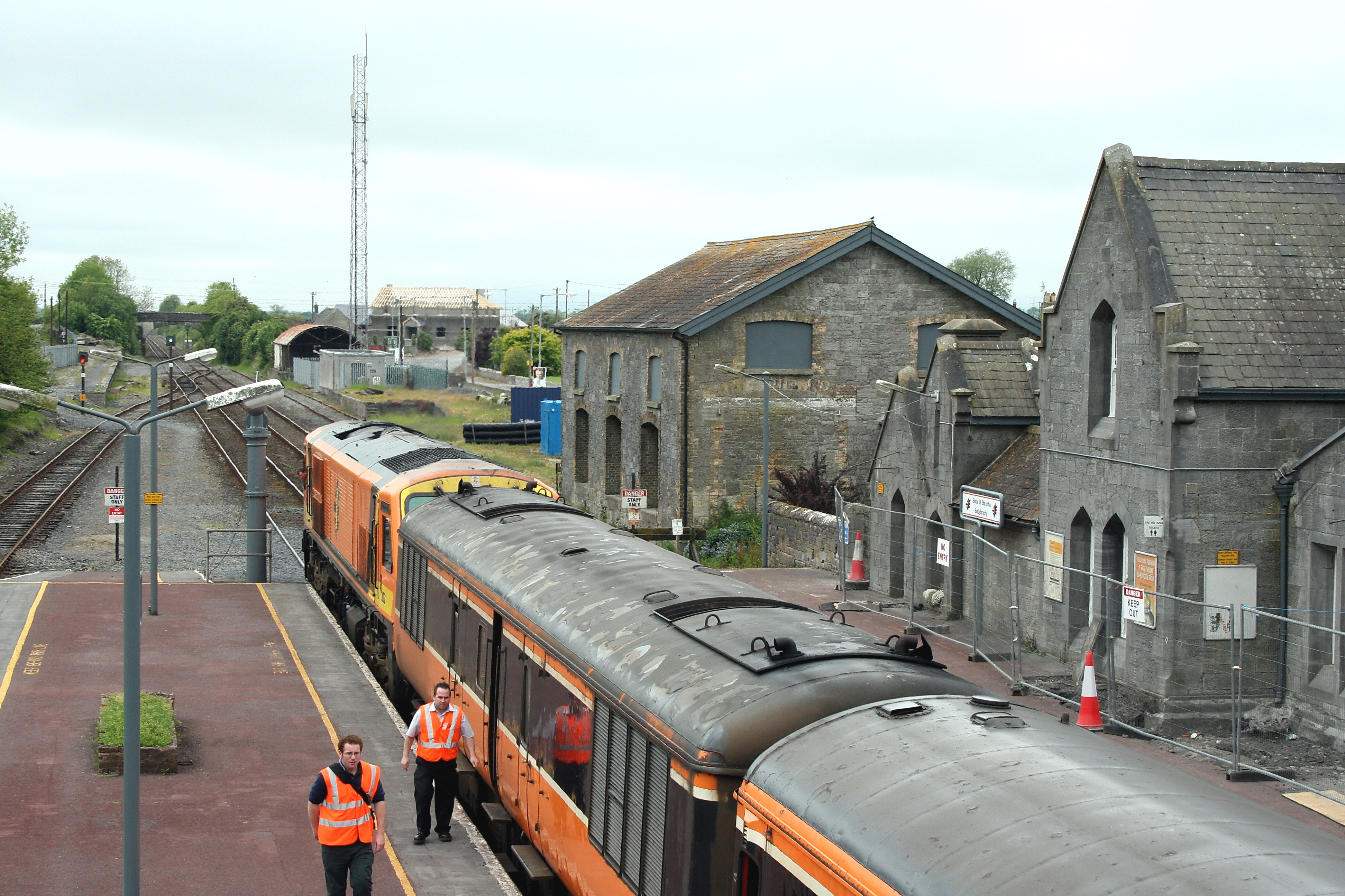 Ballybrophy Railway Station, County Laois, Ireland